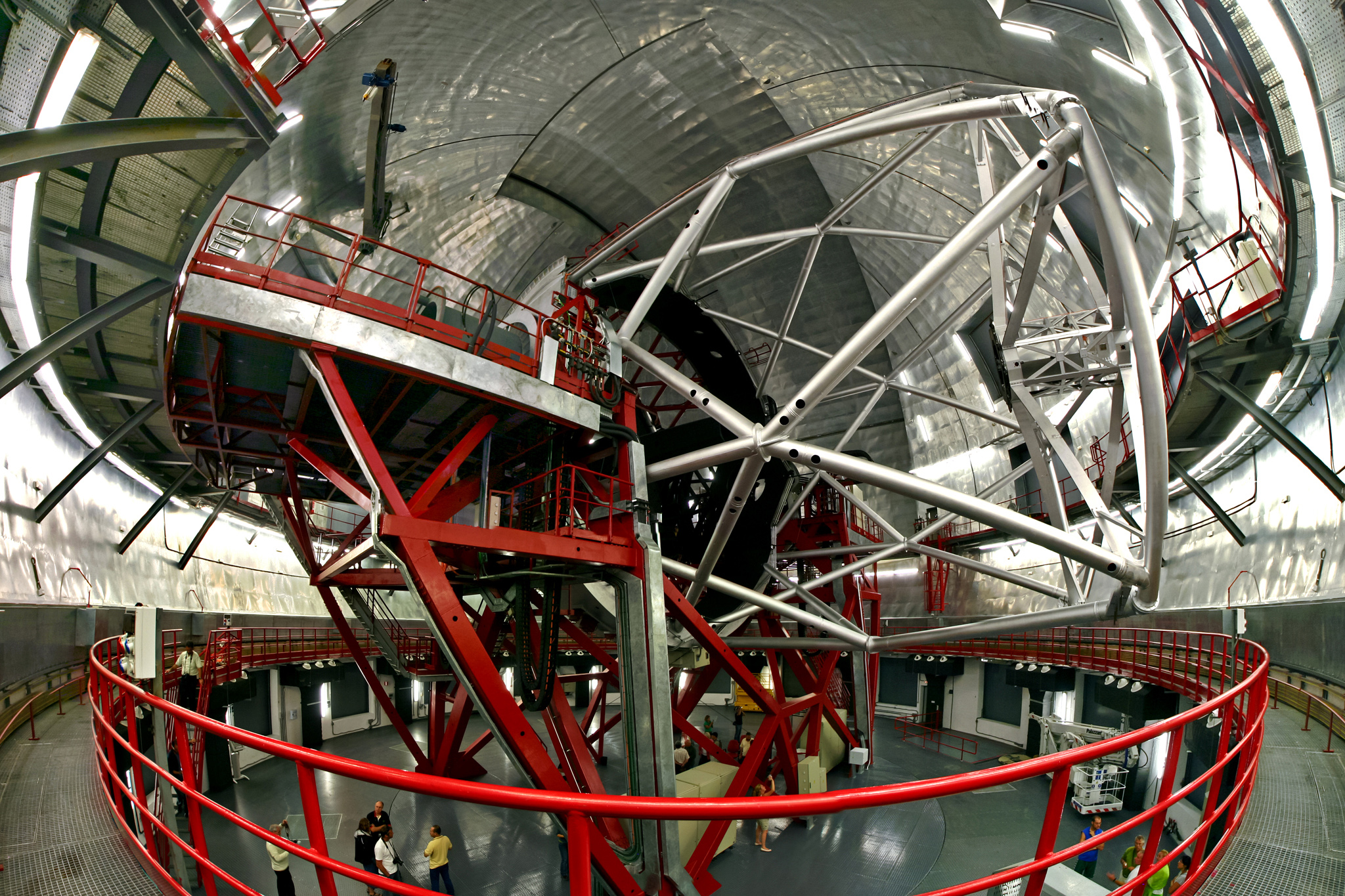 Gran Telescopio Canarias (GRANTECAN or GTC), a 10m optical Telescope at the Roque de los Muchachos Observatory, La Palma, Canary Islands. This image was stitched from eleven overlapping shots using PTgui.